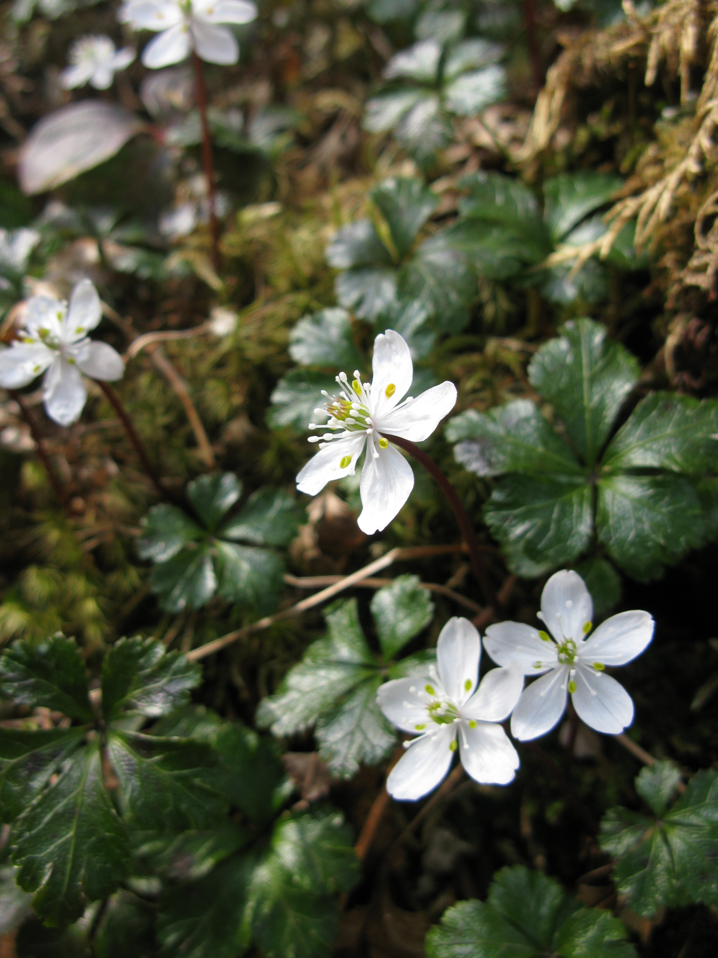 Coptis quinquefolia, Mt. Higashiazuma, Fukushima pref., Japan